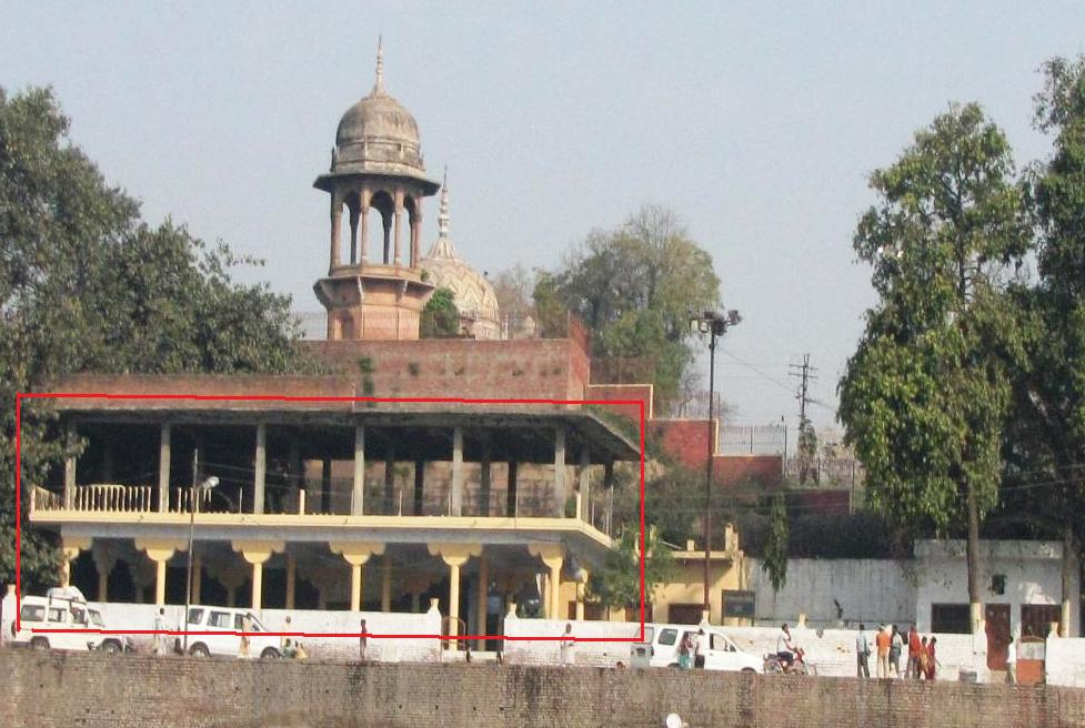 Responsible development] ___________________________ The construction of this building is illegal not only because it is built on the Ganga riverfront ghats in Varanasi after the year 2000 but primarily because it is built within 100 metres of an ASI protected monument (LalKhan ka Roza/Maqbara), thereby violating the National Monument Act of 1958. Despite two FIRs filed by ASI (dated 10.10.2000 and 30.10.2003), VDA has not taken any concrete action to demolish this illegal structure. Due to lack of effective action by VDA, the owners even managed to lodge a case in the Divisional Commissioner’s court on 31 March 2011. See also: In Wikinews ⇒ Litigation for Varanasi Heritage intensifies In Wikiversity ⇒ The Varanasi Heritage Dossier